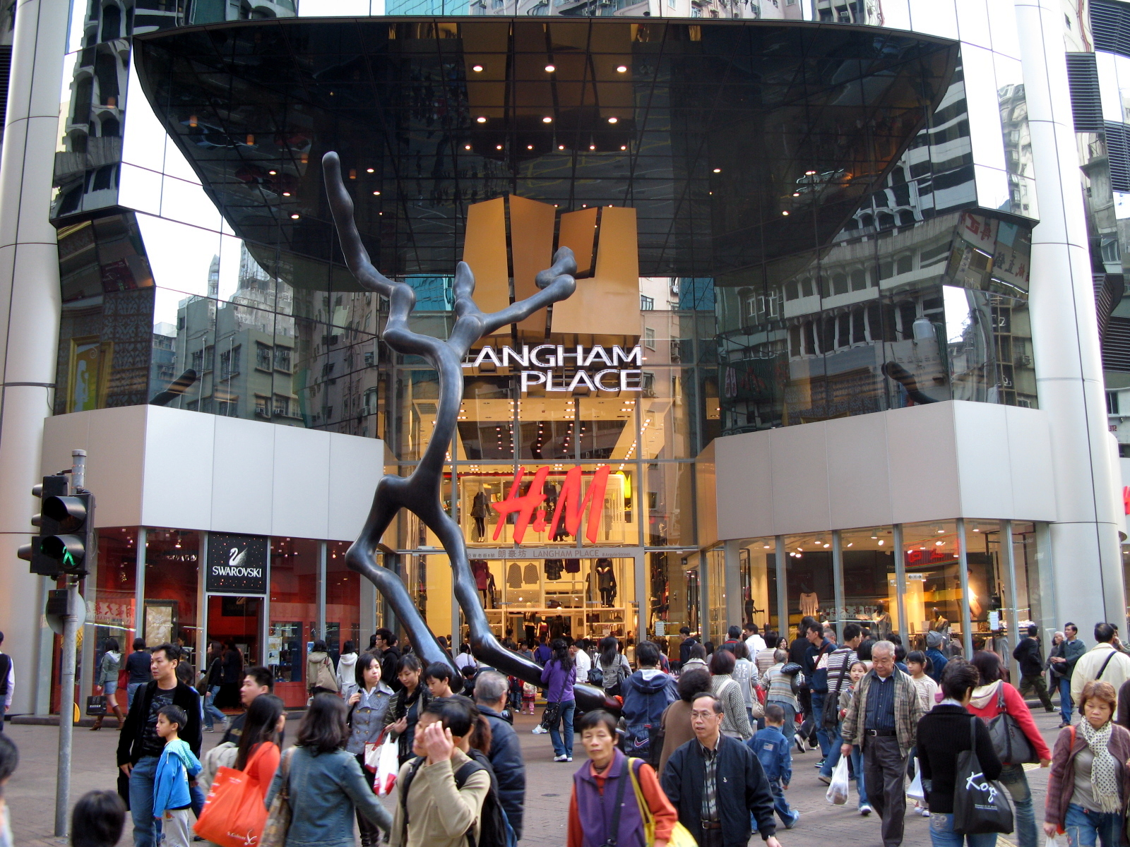 Langham Place Enterance in 2007